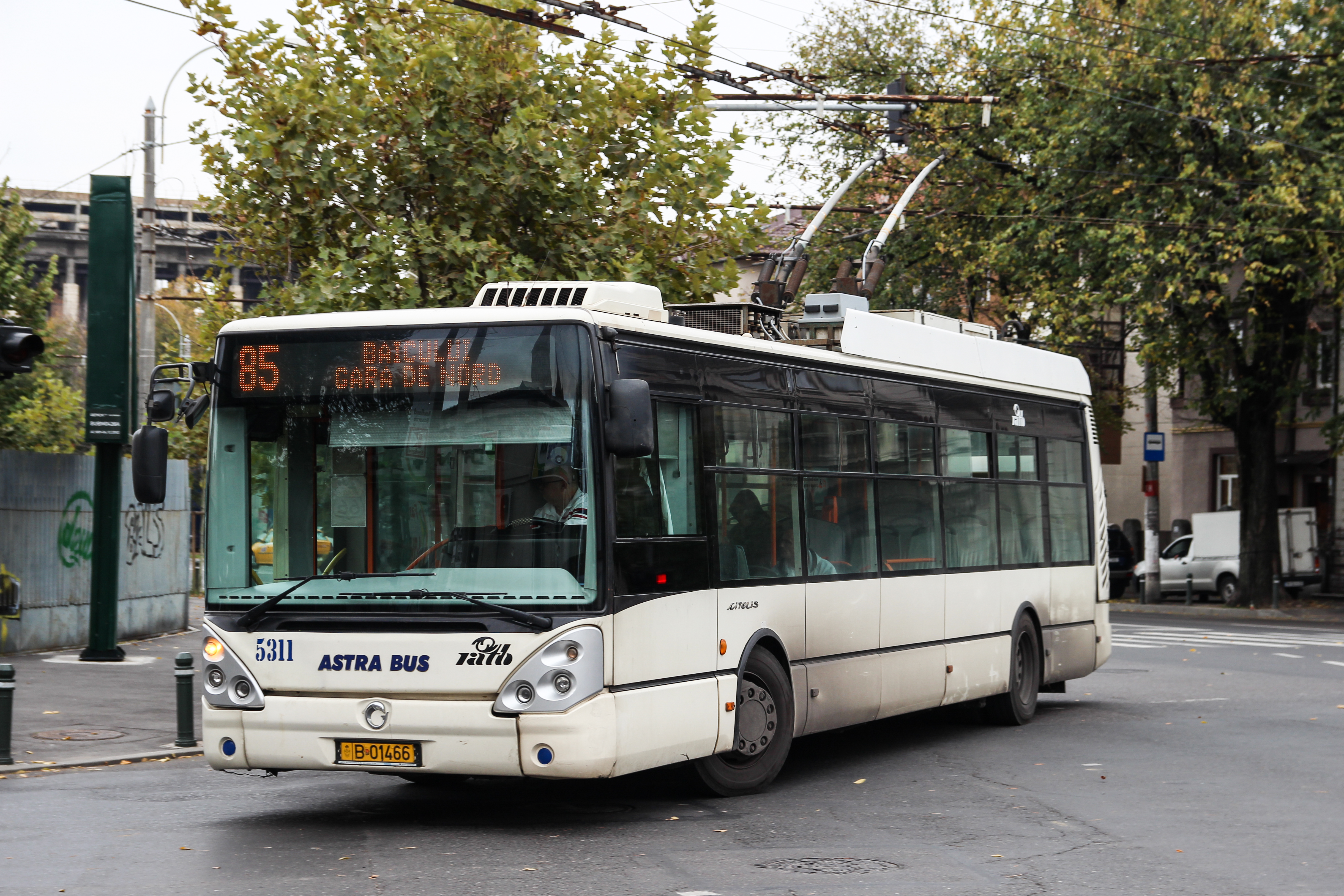 Bucharest trolleybus 5311, a 2007 Irisbus Citelis built under license in Romania by Astra Bus, in service on route 85.